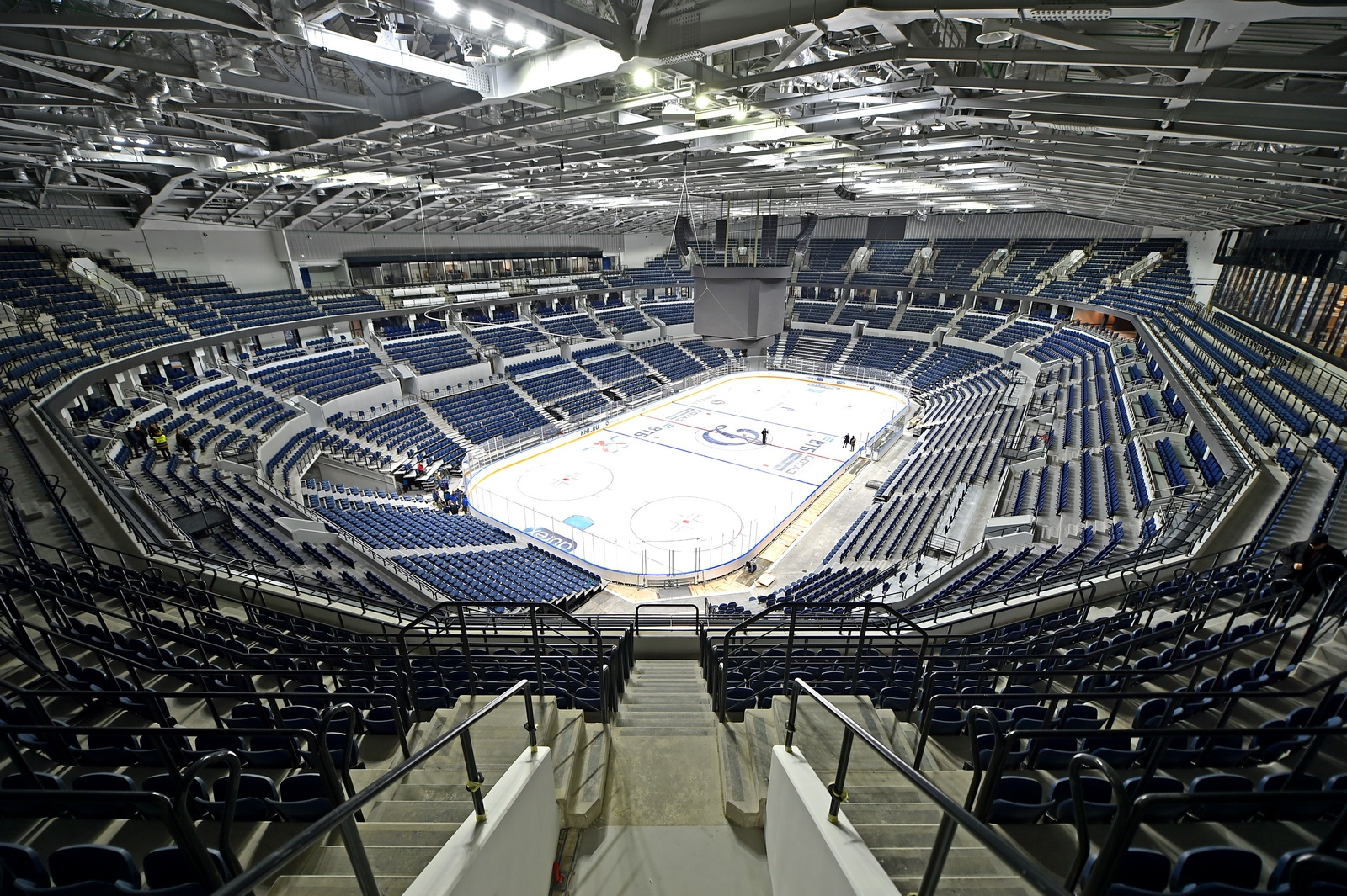 VTB Arena in Moscow